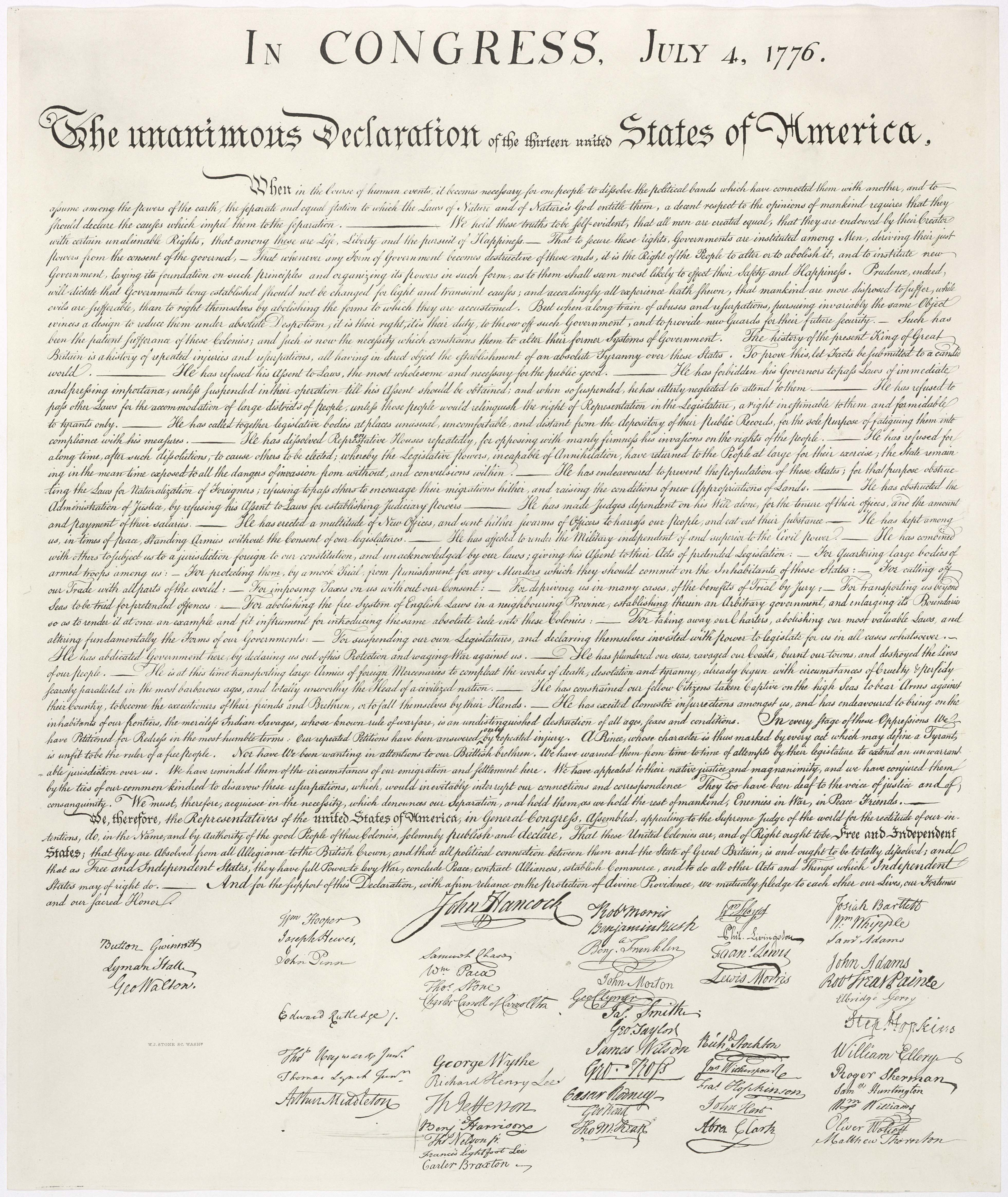 This is a high-resolution image of the United States Declaration of Independence (article - text). This image is a version of the 1823 William Stone facsimile — Stone may well have used a wet pressing process (that removed ink from the original document onto a contact sheet for the purpose of making the engraving).